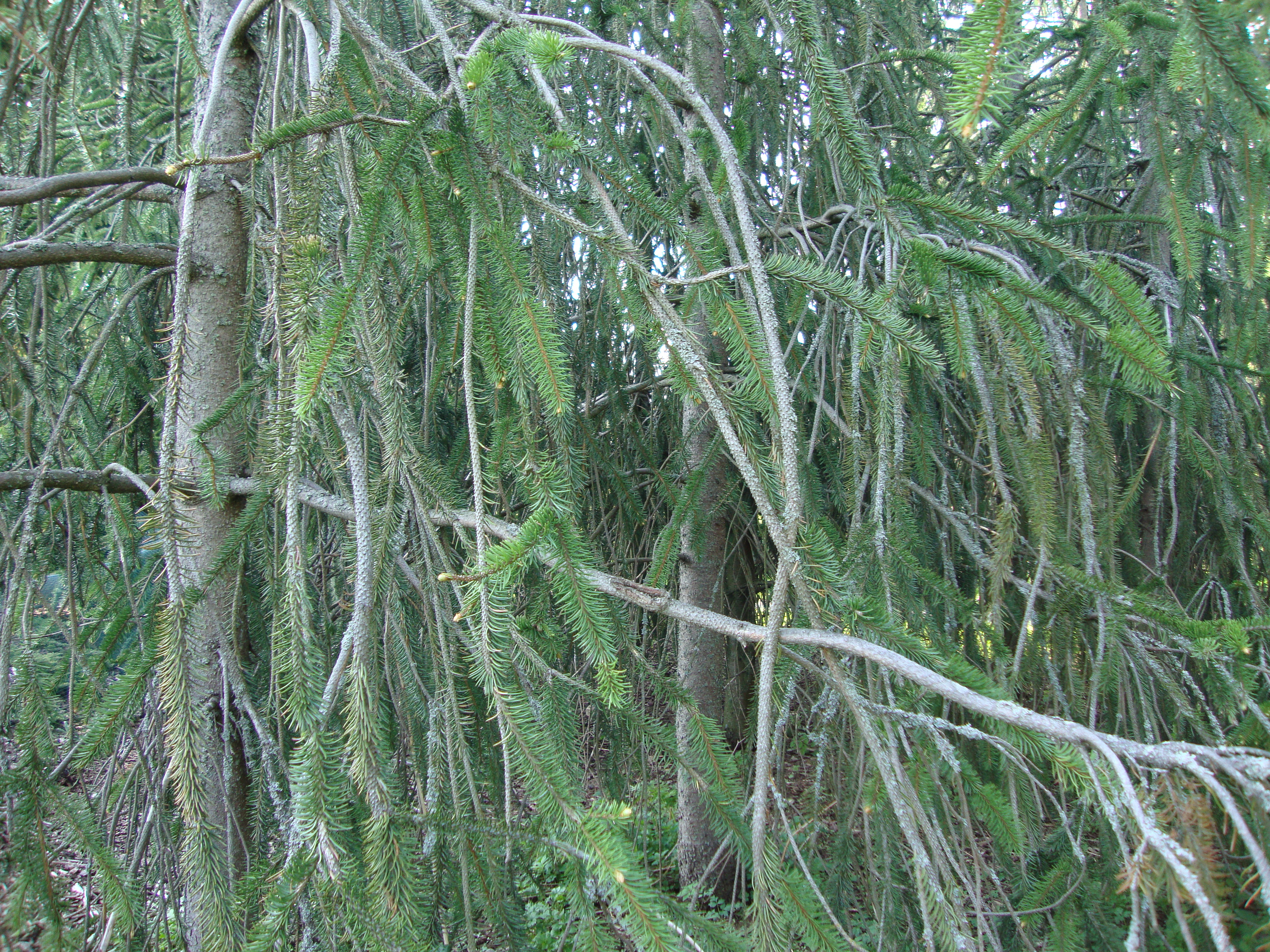 Picea abies 'Virgata' can be found in Meilahti Arboretum in Helsinki.